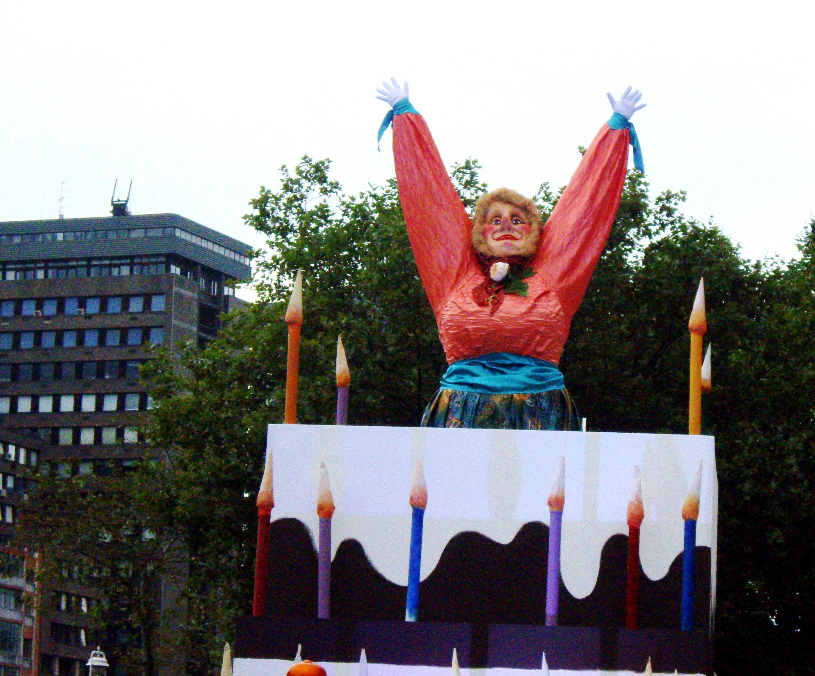 Marijaia is the symbol of the Bilbao´s festivities.